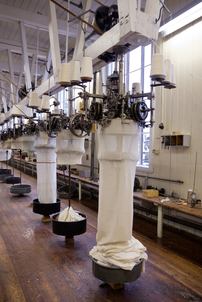 Circular knitting machines (the one in front from 1963) in the knitting department at former textile mill Salhus Tricotagefabrik, now the Norwegian Knitting Industry Museum.